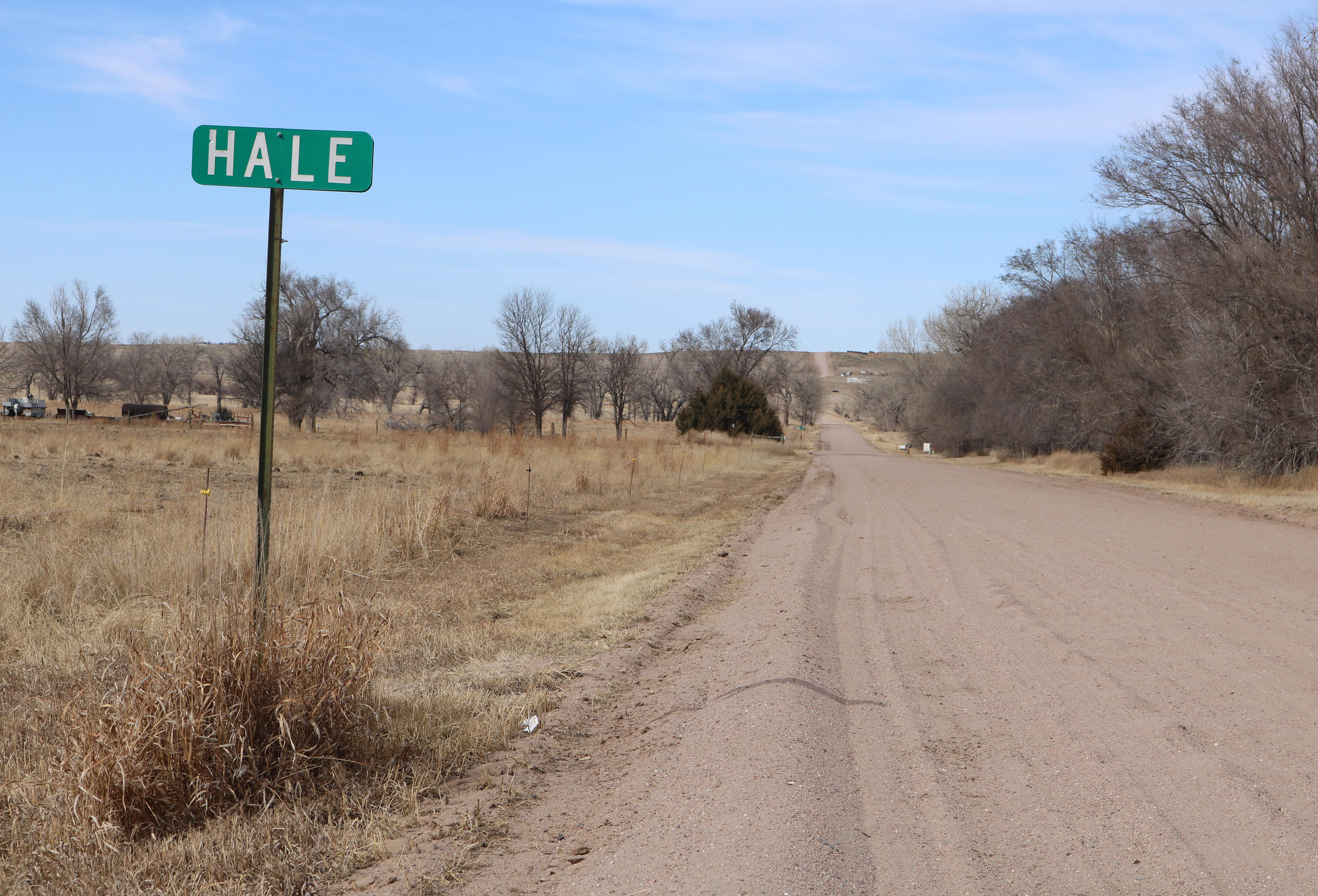 Hale, Colorado. The view is towards the north along Yuma County Road LL.5.